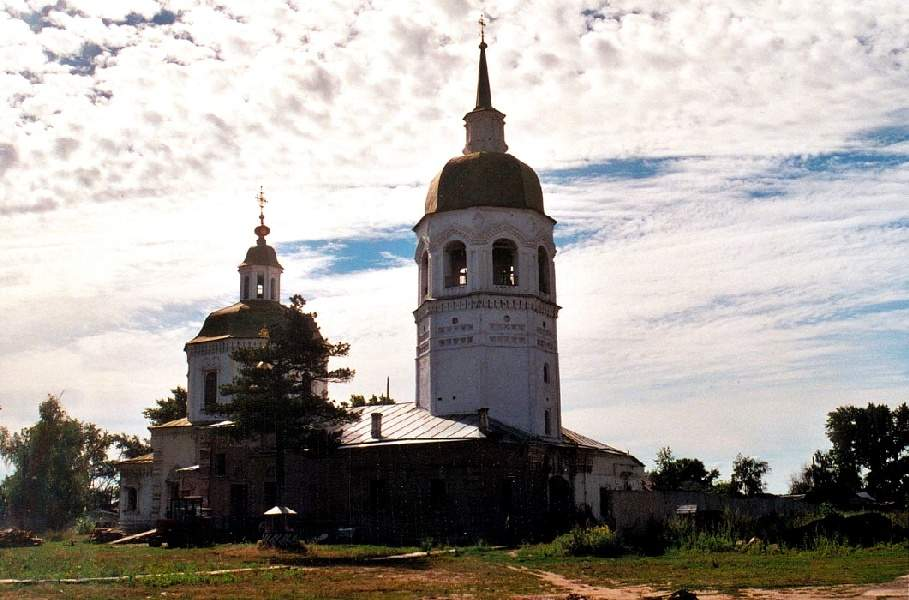 Monastery of the Transfiguration of the Savior, Church of the Transfiguration (1750s), Yeniseysk, Russia